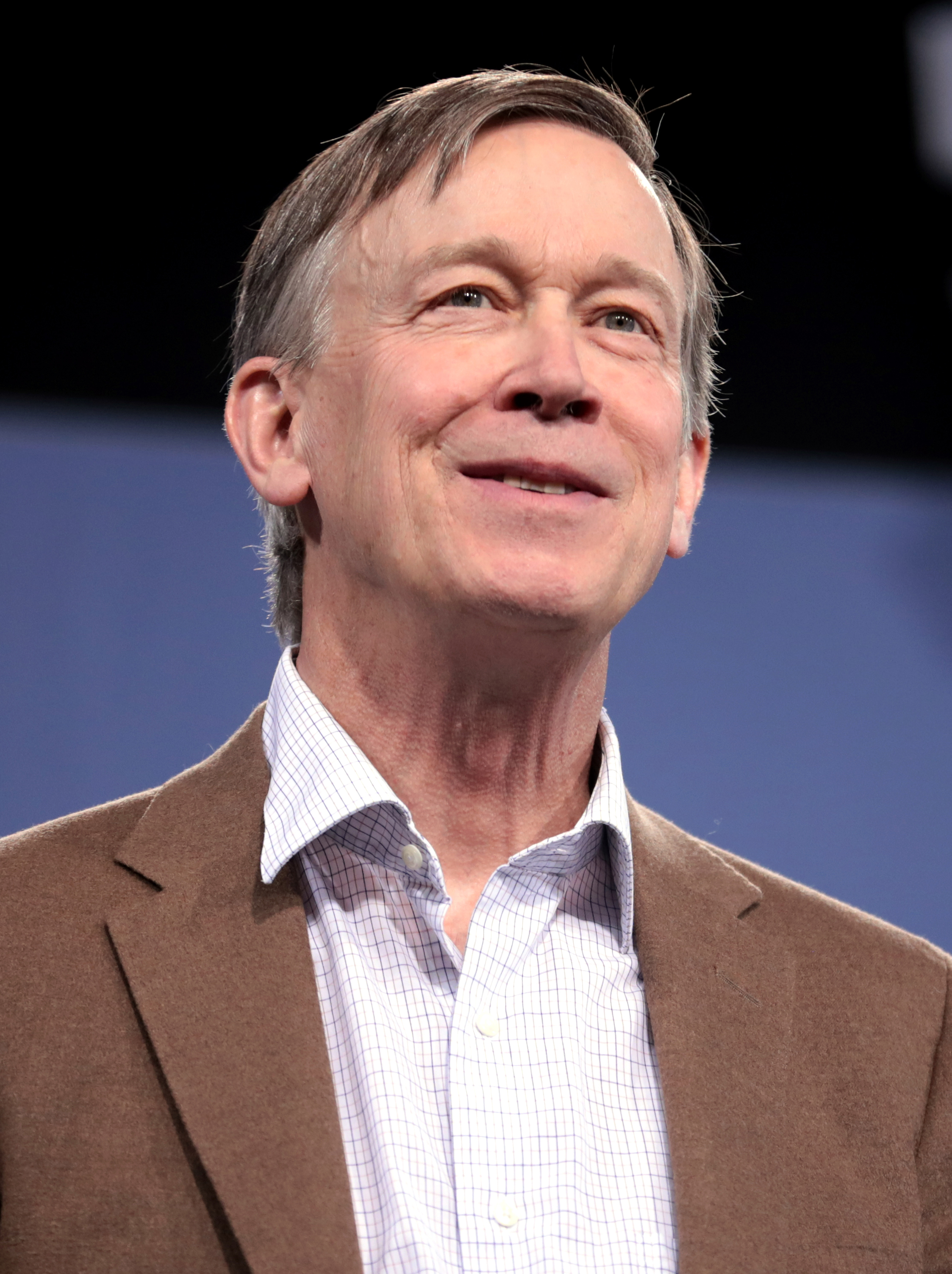 John Hickenlooper speaking at an event in Las Vegas, Nevada.